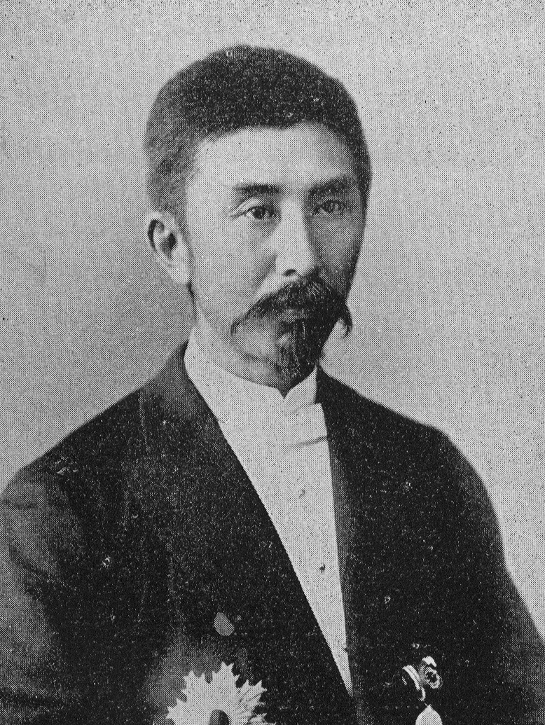 Ōura Kanetake, the Police General